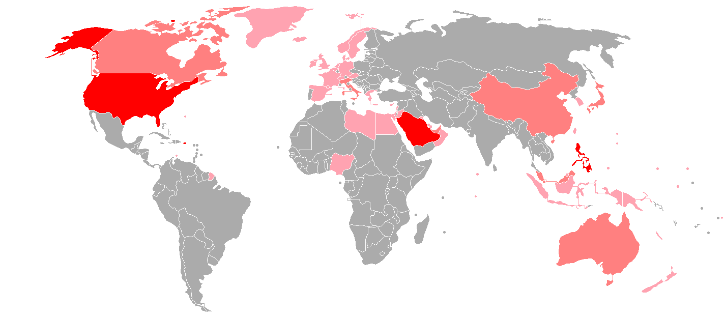 This map is about the countries that use the Tagalog language. The pink color shows the regions where it has a minority, the rose color shows regions where it has 100,000 speakers, and the red color shows regions where it has over 500,000-1,000,000 speakers. The map is based on the websites: Joshua Project, CIA Factbook, and Ethnologue.